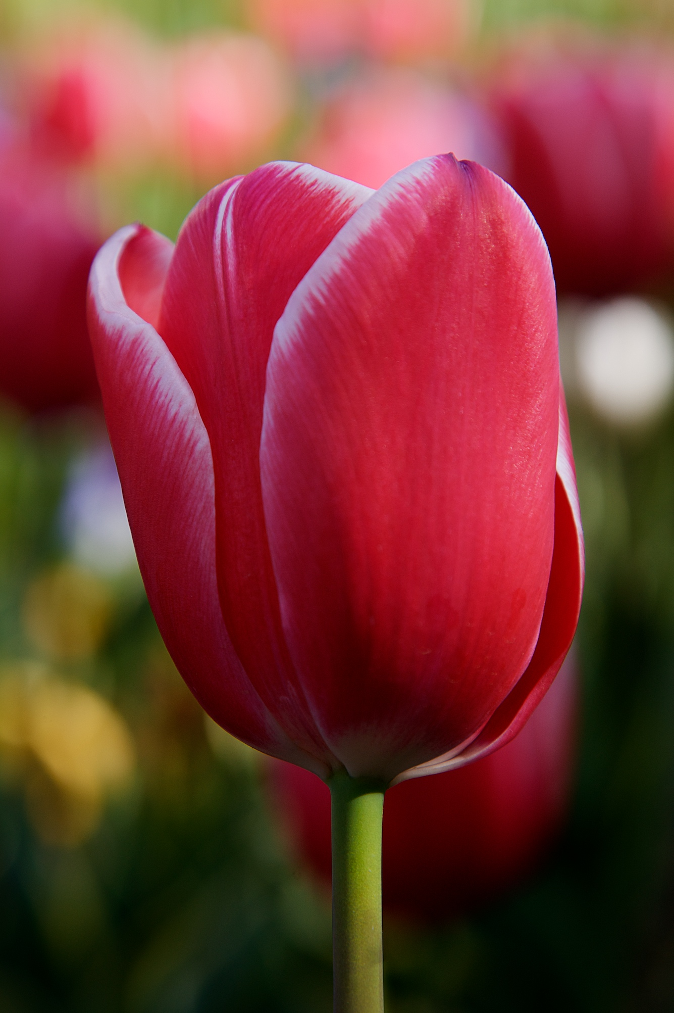 Cultivated Tulip at Floriade 2008 in Canberra, Australia.